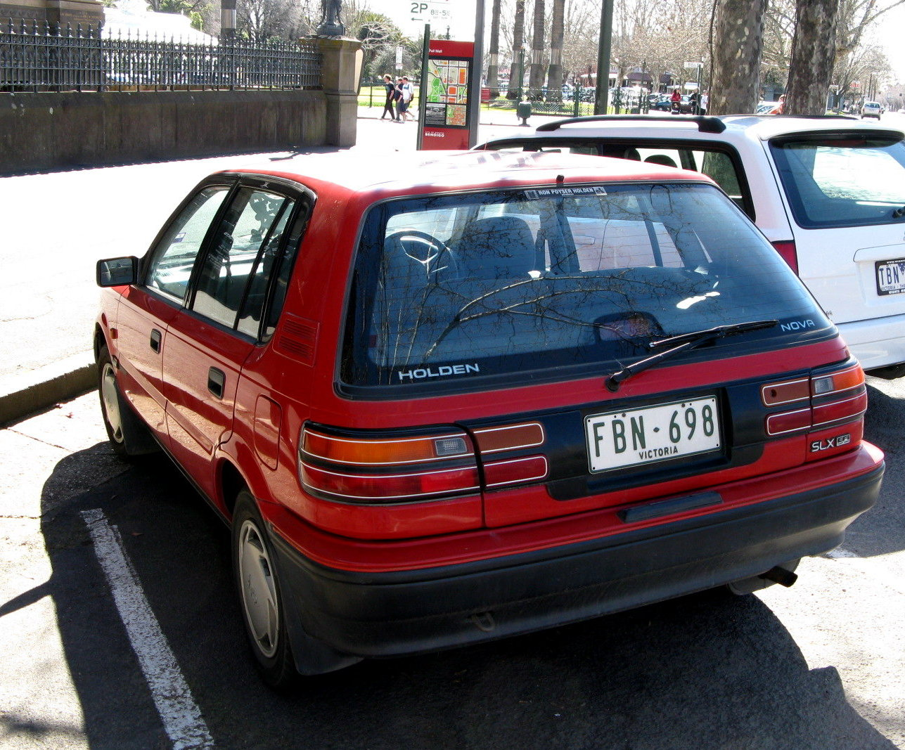 1992 Holden Nova (LF) SLX hatchback. Photographed in Bendigo, Victoria, Australia. Vehicle registration enquiry results Jurisdiction Victoria Registration FBN698 Chassis code 6T154AZ9409762688 Engine code 4A9158127 Compliance date 1992-12 Year of manufacture 1993 (not a typo)